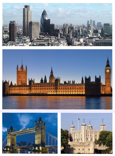 A montage of major London landmarks, made originally (by request and consensus) for the London article on the English Wikipedia, but now used across other languages.